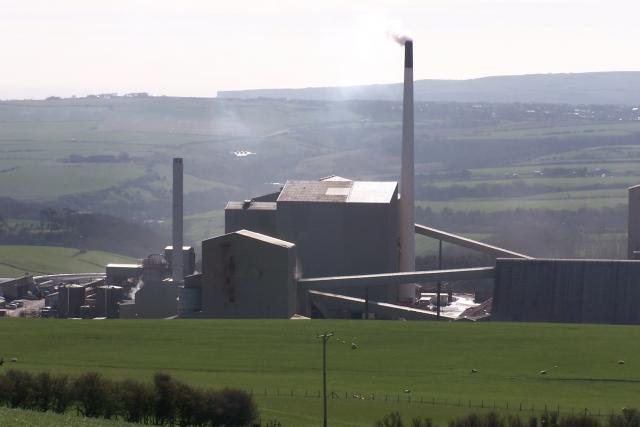 Boulby Mine, North Yorkshire is the deepest mine in the United Kingdom. It is a major source of potash, accounting for half of the UK output, with rock salt as a byproduct.